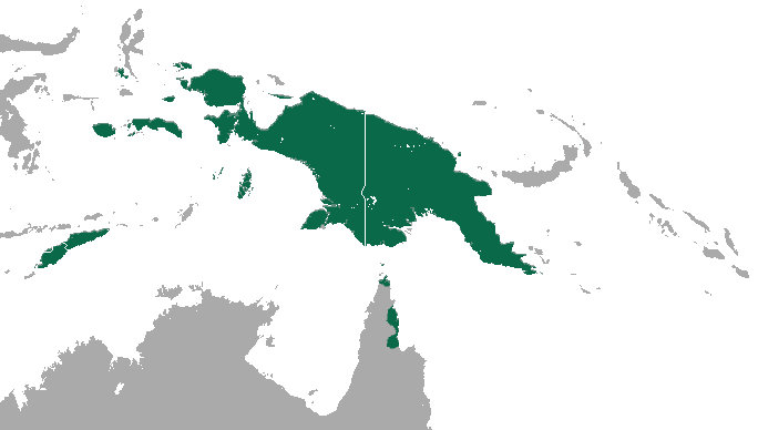 Moluccan Naked-backed Fruit Bat (Dobsonia moluccensis) range